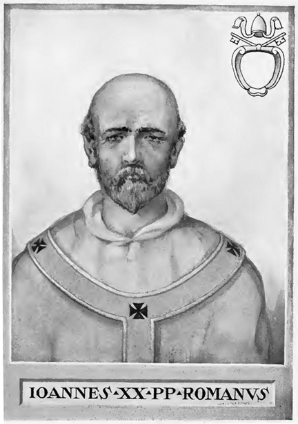 This illustration is from The Lives and Times of the Popes by Chevalier Artaud de Montor, New York: The Catholic Publication Society of America, 1911. It was originally published in 1842. This Pope was in the past erroneously referred to as John XX, but on modern lists of popes there is no Pope John XX.